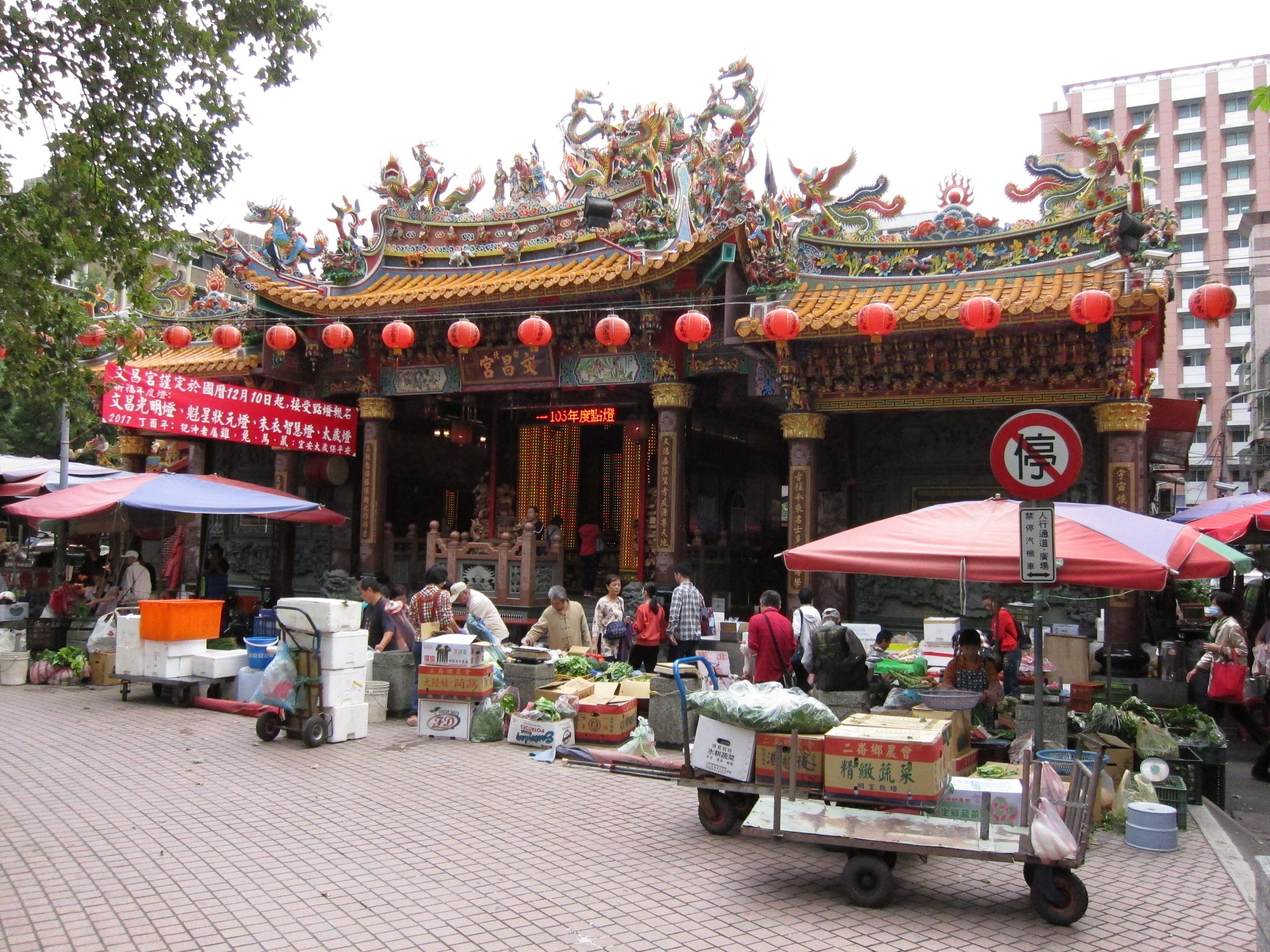 Taipei Wunchang Temple